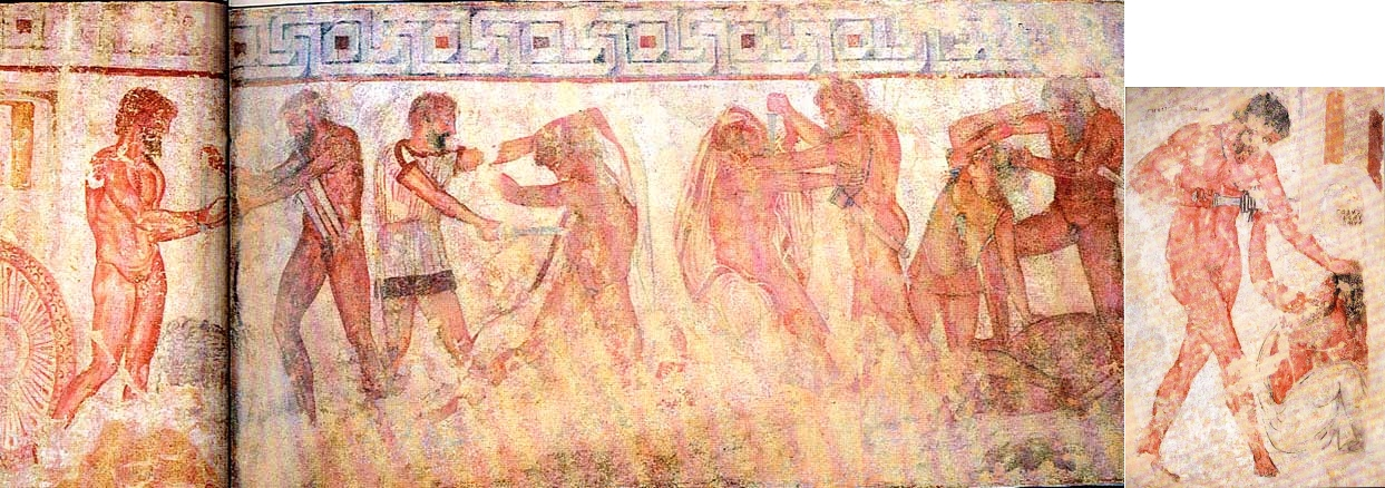 Tomb of Francois at Vulci - Liberation of Caelius Vibenna; on the left, Macstarna, later Roman king Servius Tullius